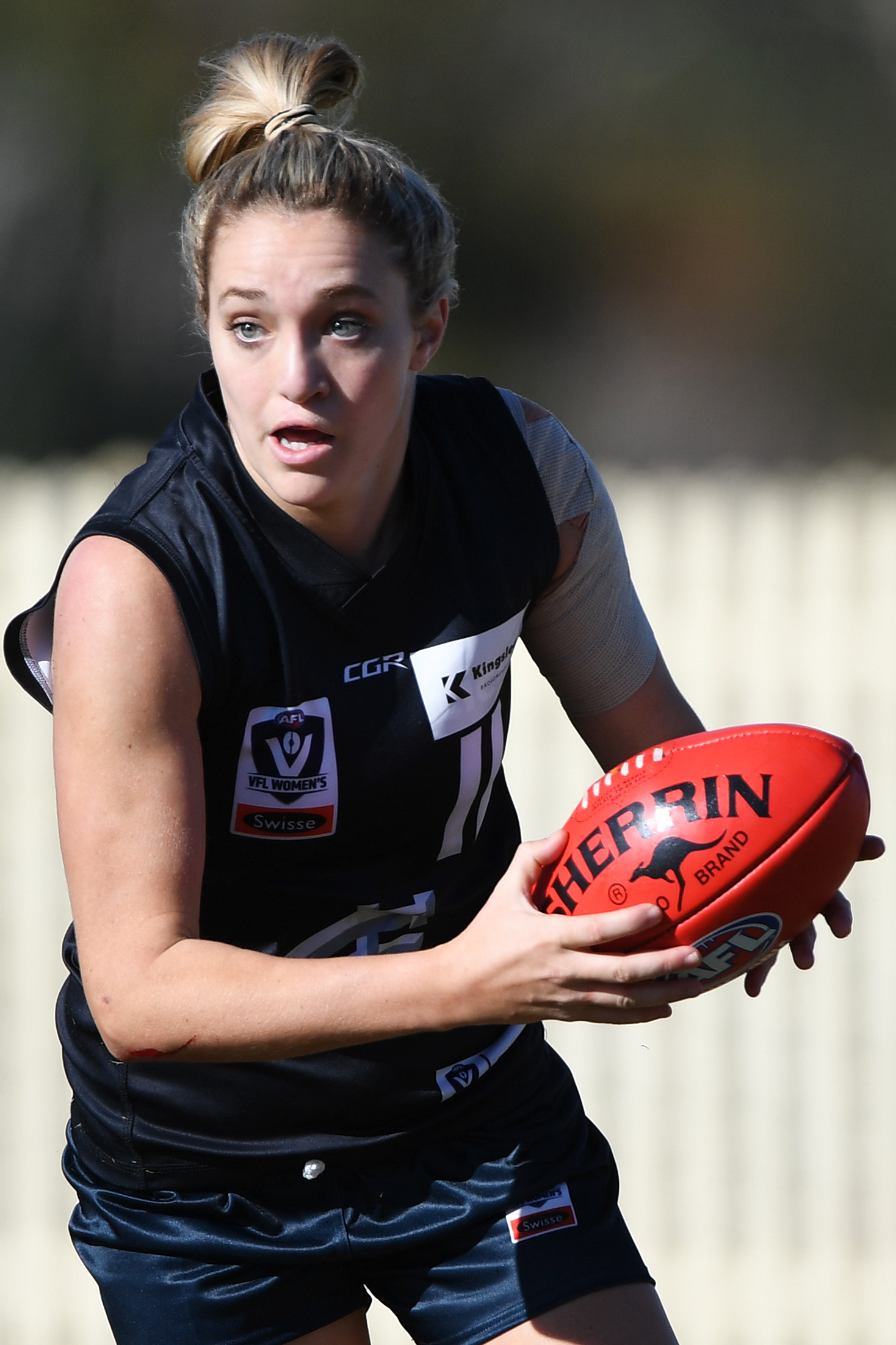 Jess Hosking of Carlton during the 2019 VFLW round 5 match between Carlton and NT Thunder at La Trobe University on Saturday, 8 June 2019 in Melbourne, Victoria.